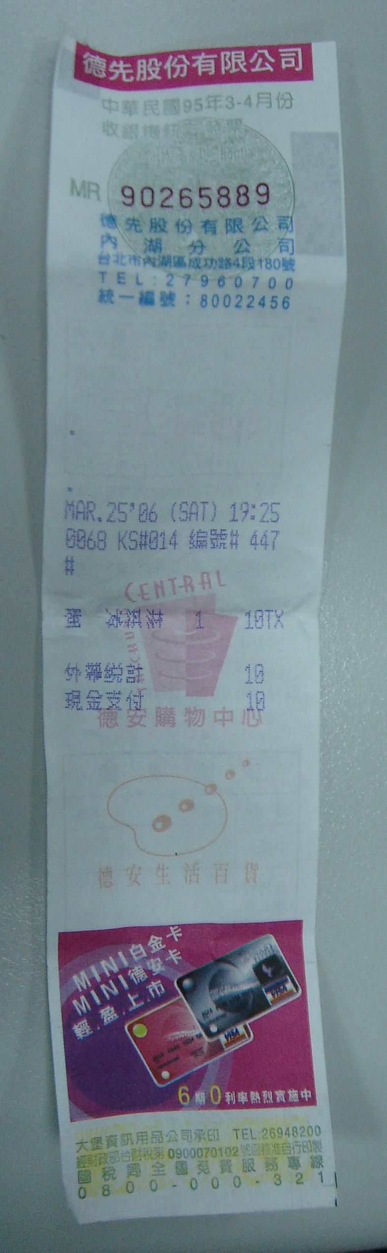 Invoice used in Taiwan, the front side. Photoed by Hsiang-Tai Chien.